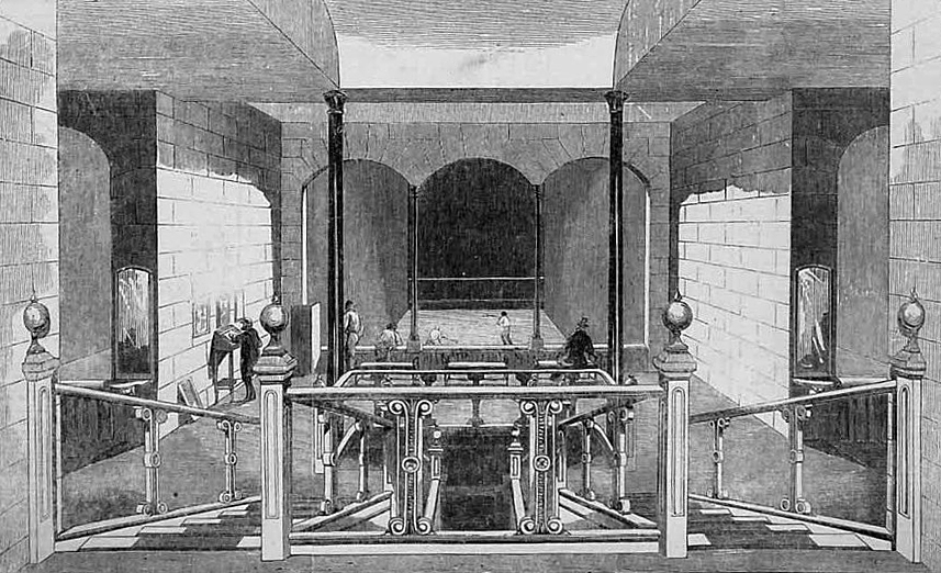 The Old Prince's Club at Hans Place, Belgrave Square, London Original caption: Prince's Racquet Club Courts, Hans-Place, Belgrave Square